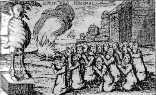 Inquisition slandering depiction of Slavic Native Faith believers in Moscow worshiping of their goddess Mokosh. (SCHLEUSING G. A La religion ancienne et moderne des Moscovites. Amsterdam, 1698)